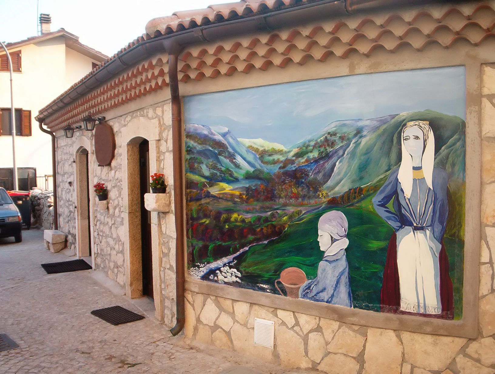 View of Scontrone, a nice little town in Italy (L'Aquila).